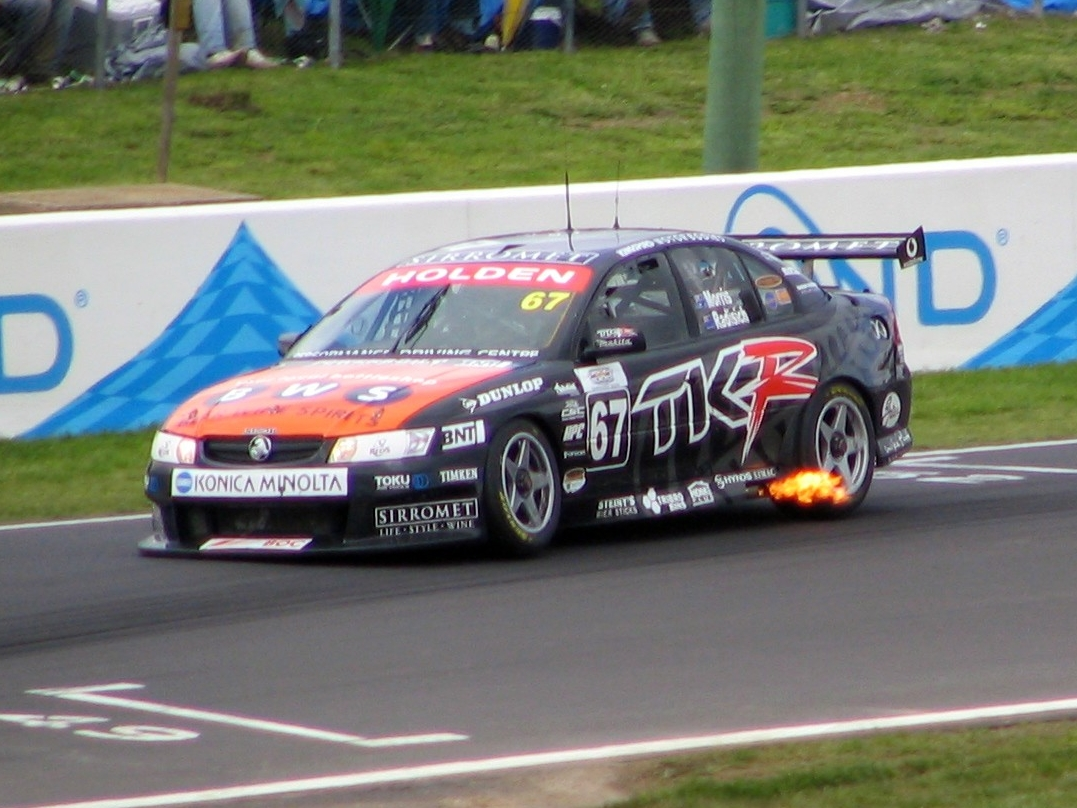 The "Sirromet-Life, Style, Wine" Holden VZ Commodore of Paul Morris and Paul Radisich at the 2005 Super Cheap Auto 1000, Mount Panorama Circuit, Bathurst, New South Wales, Australia